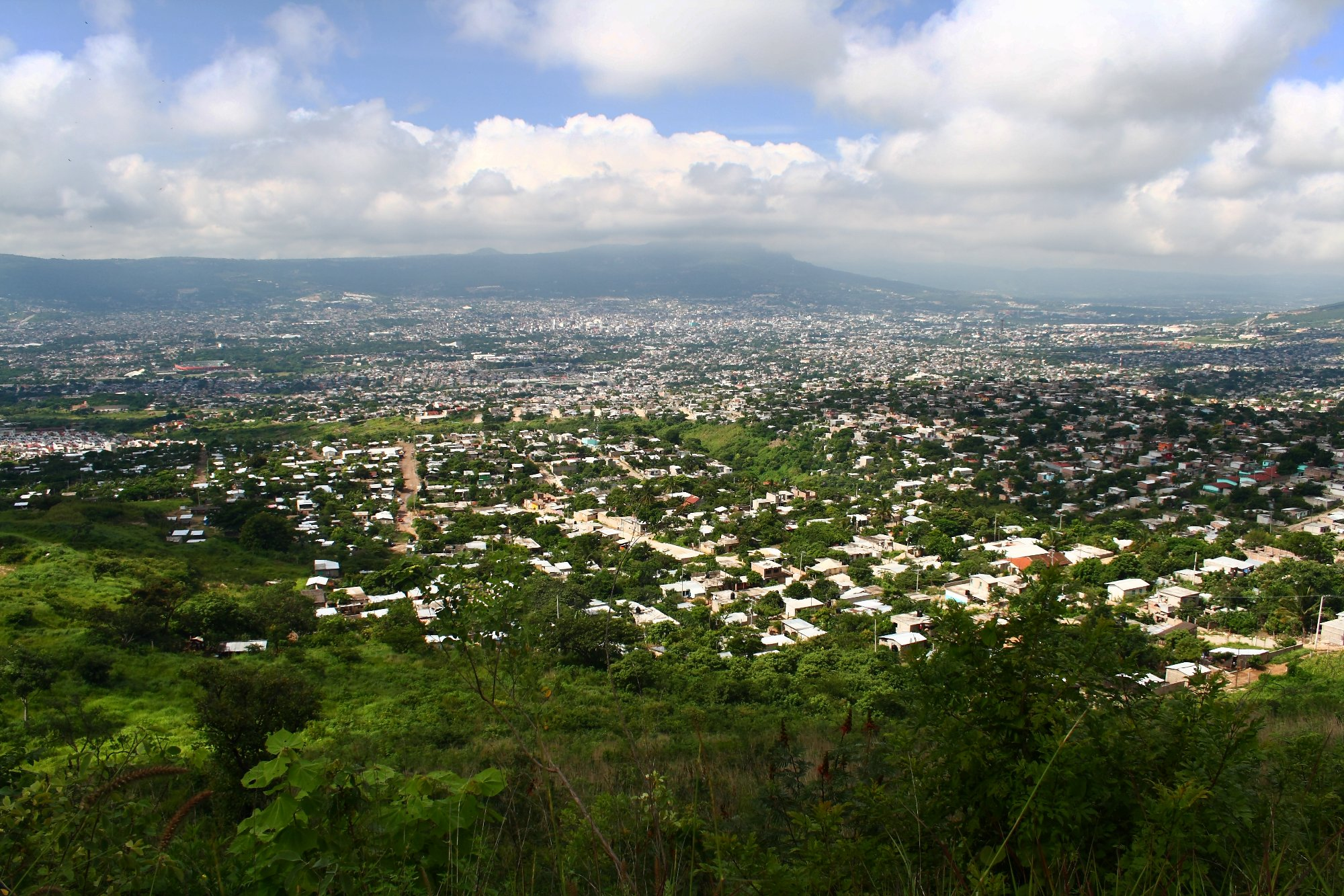 Tuxtla Gutierrez : Capital of Chiapas